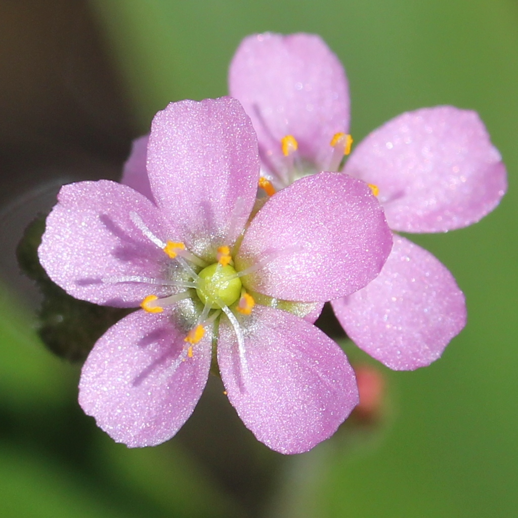 Drosera tokaiensis in Imou bog, Toyohashi, Aichi prefecture, Japan.